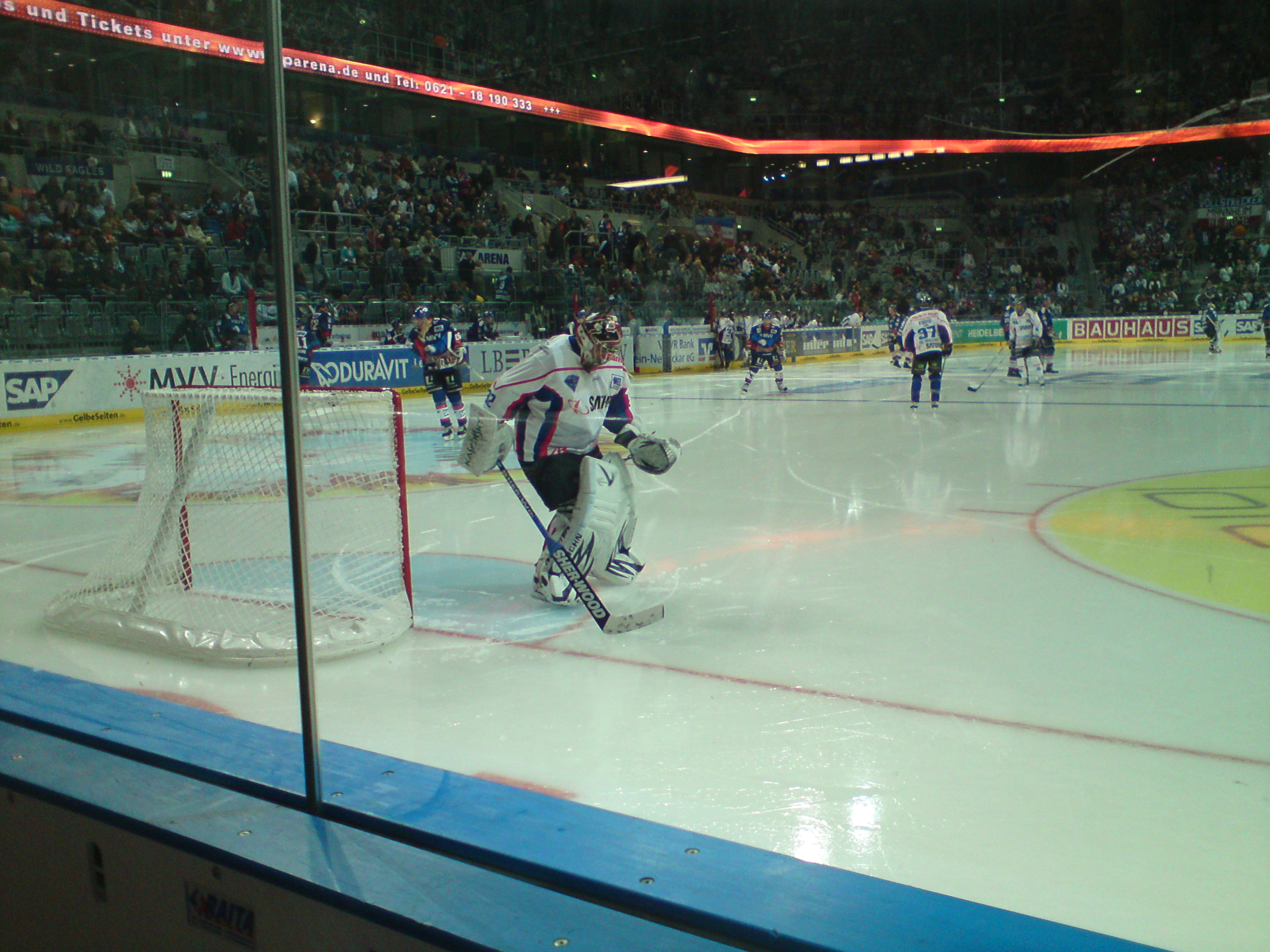 Dimitri Pätzold goalie of the Ingolstadt Panther